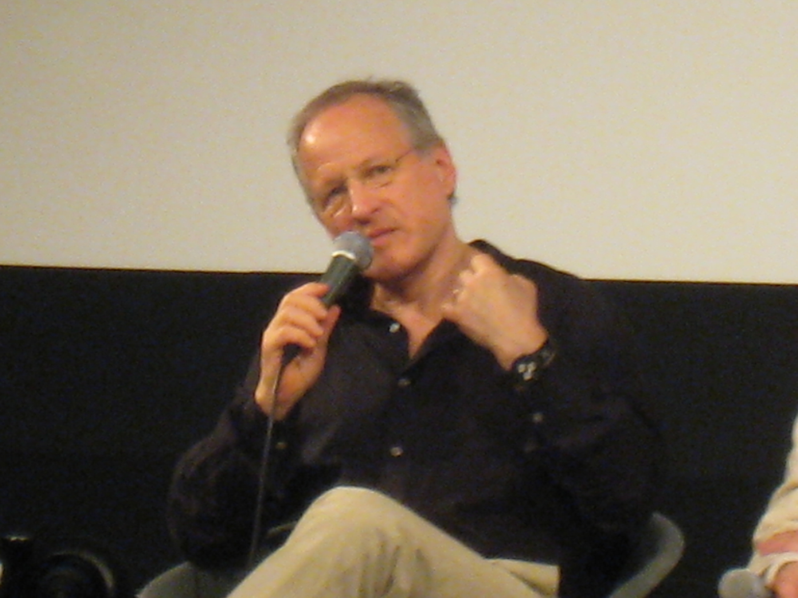 Michael Mann at a "master-class" at the French Cinematheque